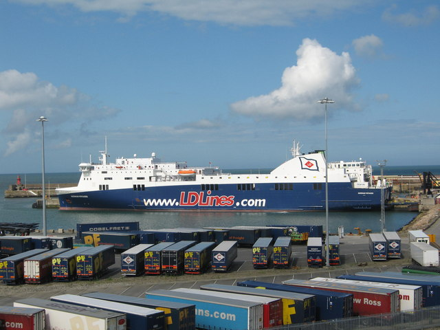 Norman Voyager At Rosslare Harbour LD lines operate a new weekly service linking Rosslare with Le Havre France.